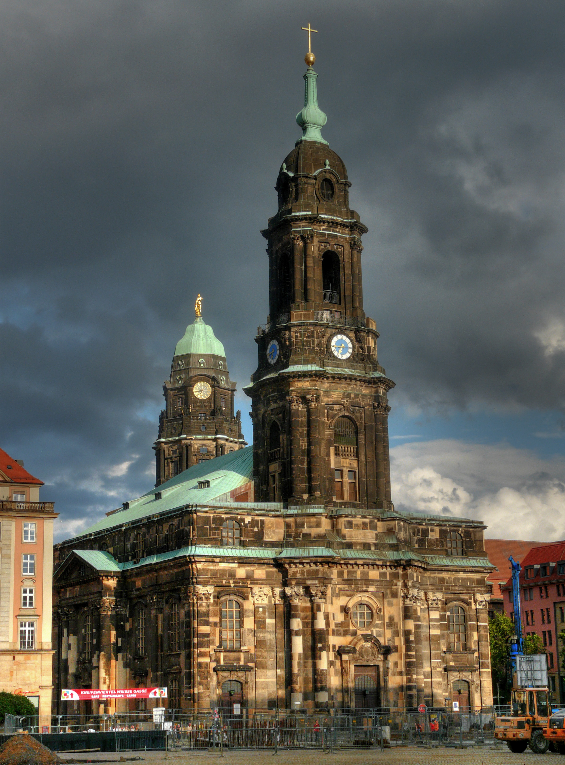 The Kreuzkirche in Dresden, HDR processing has been used.